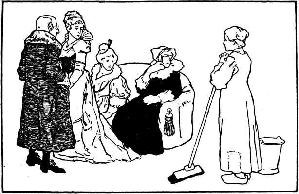 Illustration to Cinderella by Otto Ubbelohde